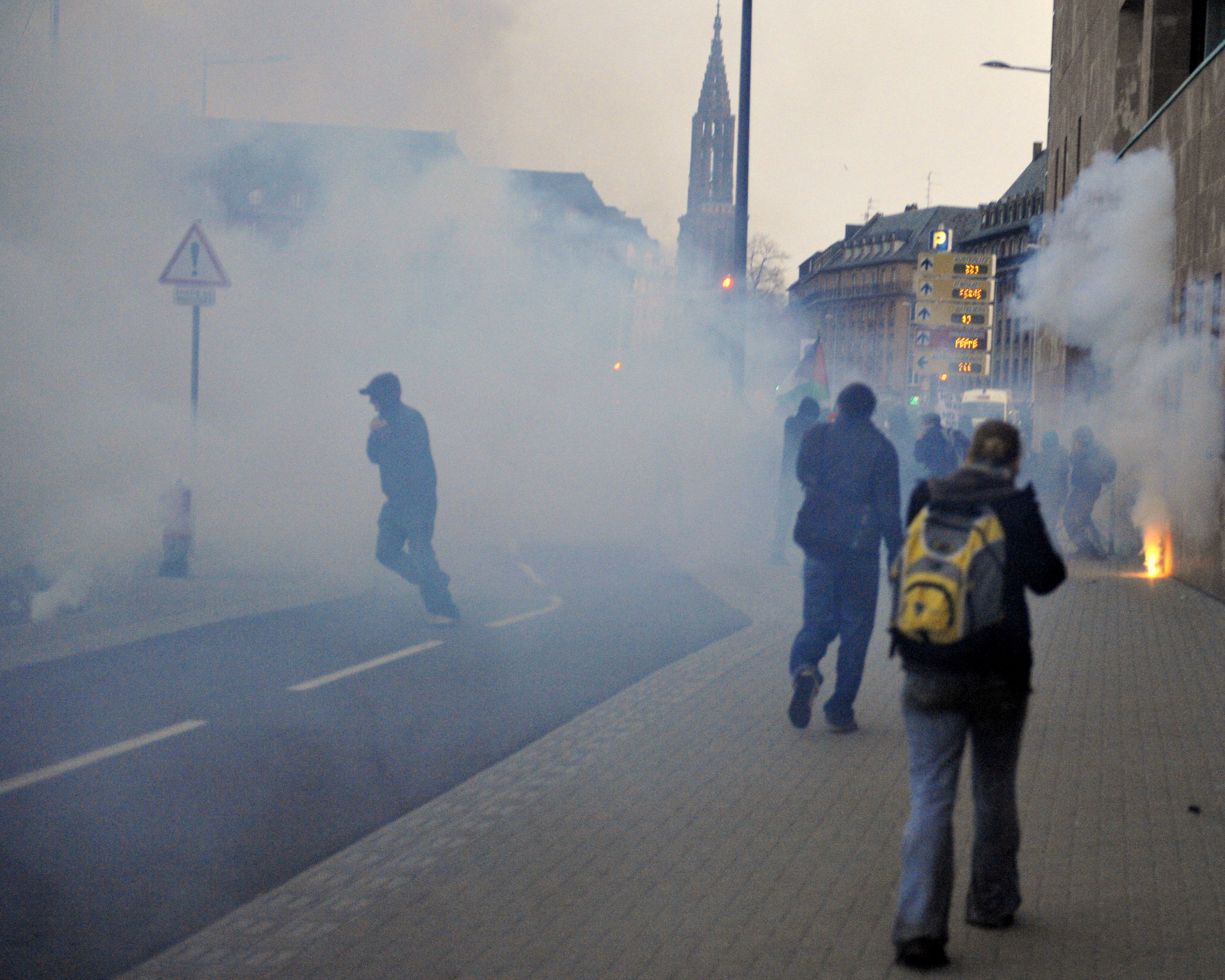 Teargas